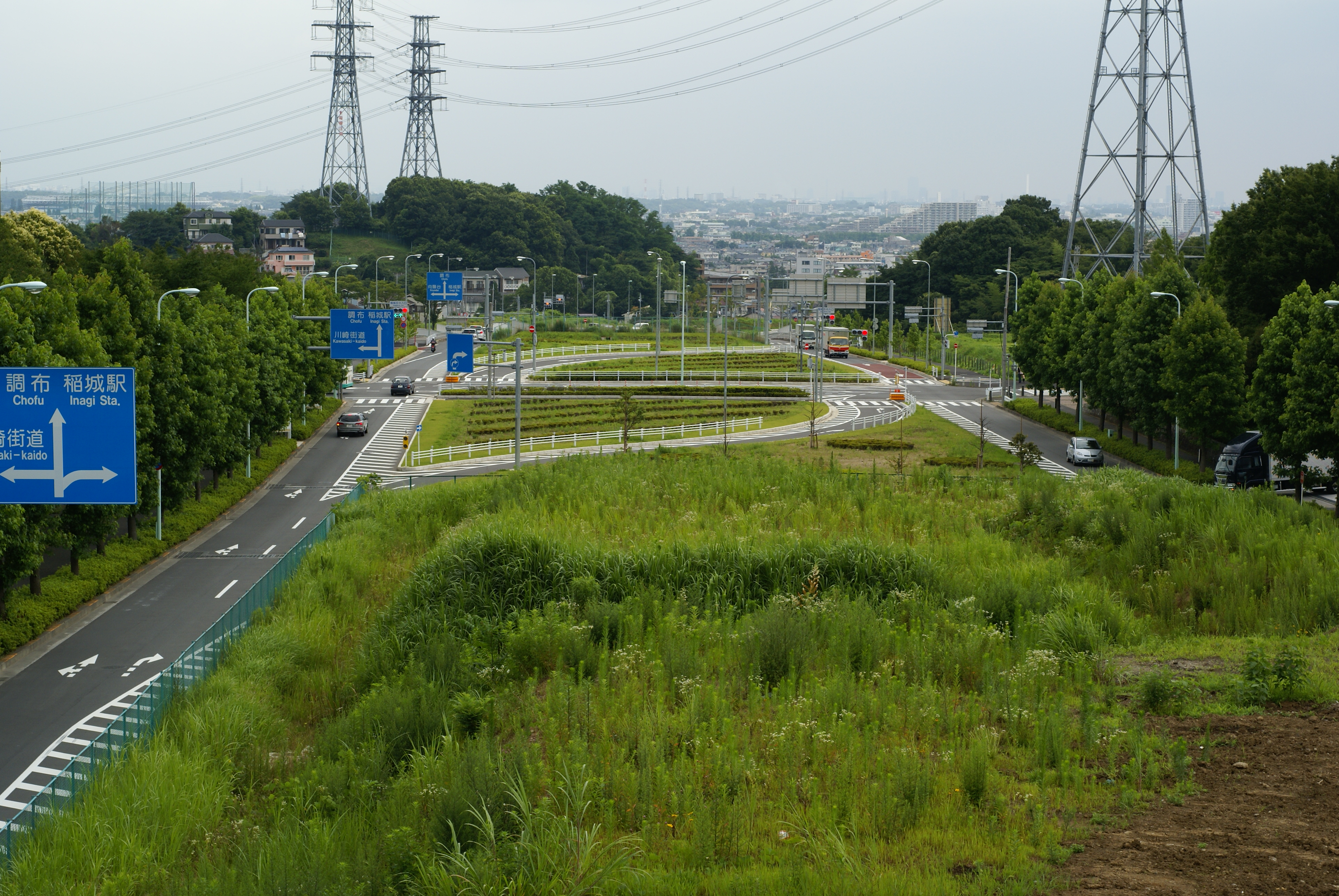 Minamitama onekansen view from Tateyatohashi